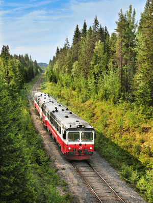 Inlandsbanan 2014